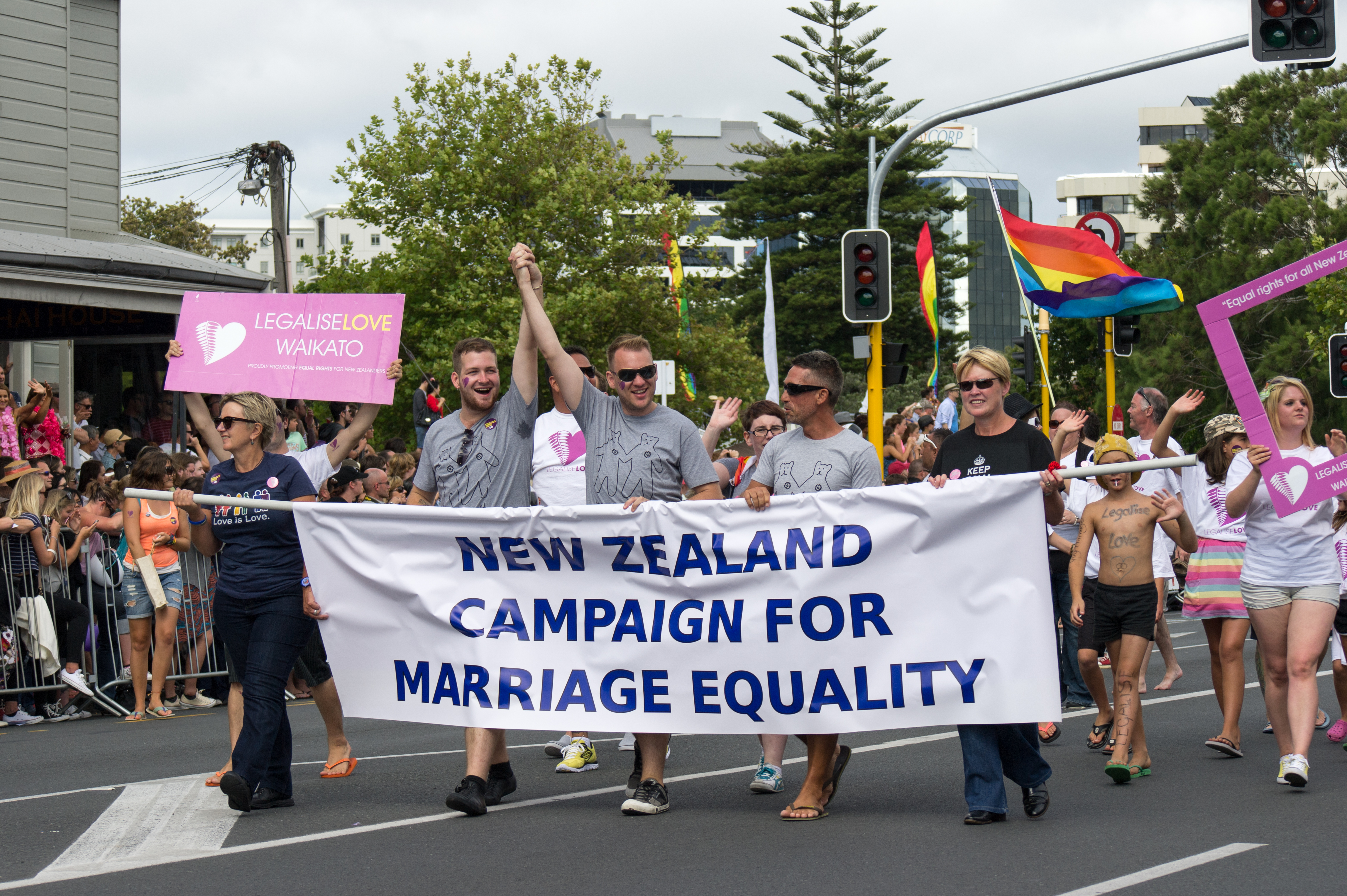 Auckland Pride Parade, 16 February 2013.